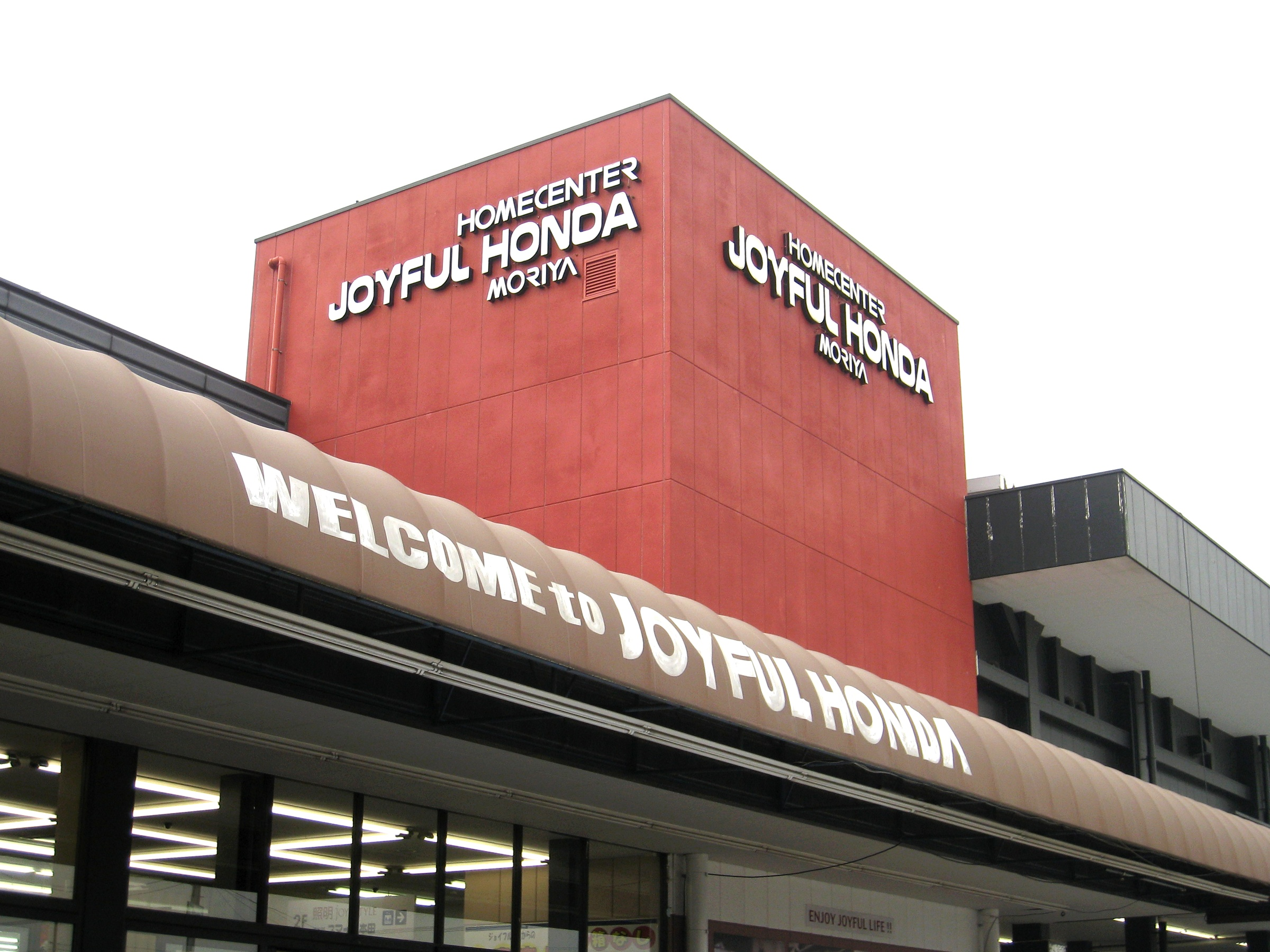 Exterior of Moriya Joyful Honda, is hardware store in Moriya City, Ibaraki Prefecture, this photo shoot on May 16, 2009.